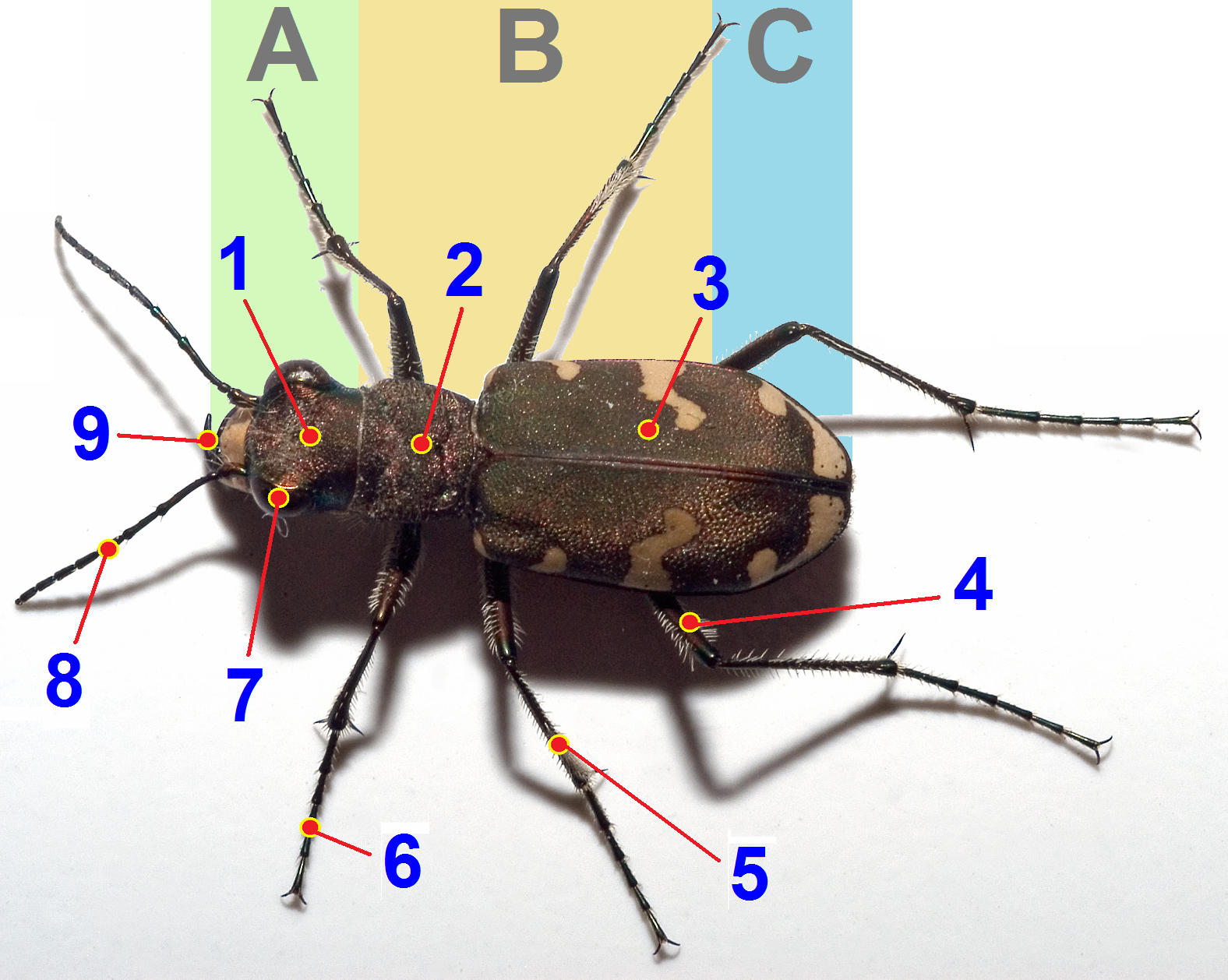 Description: Cicindela sylvicola; determined because of the hairs between the eyes. it is very simmilar to Cicindela hybrida.